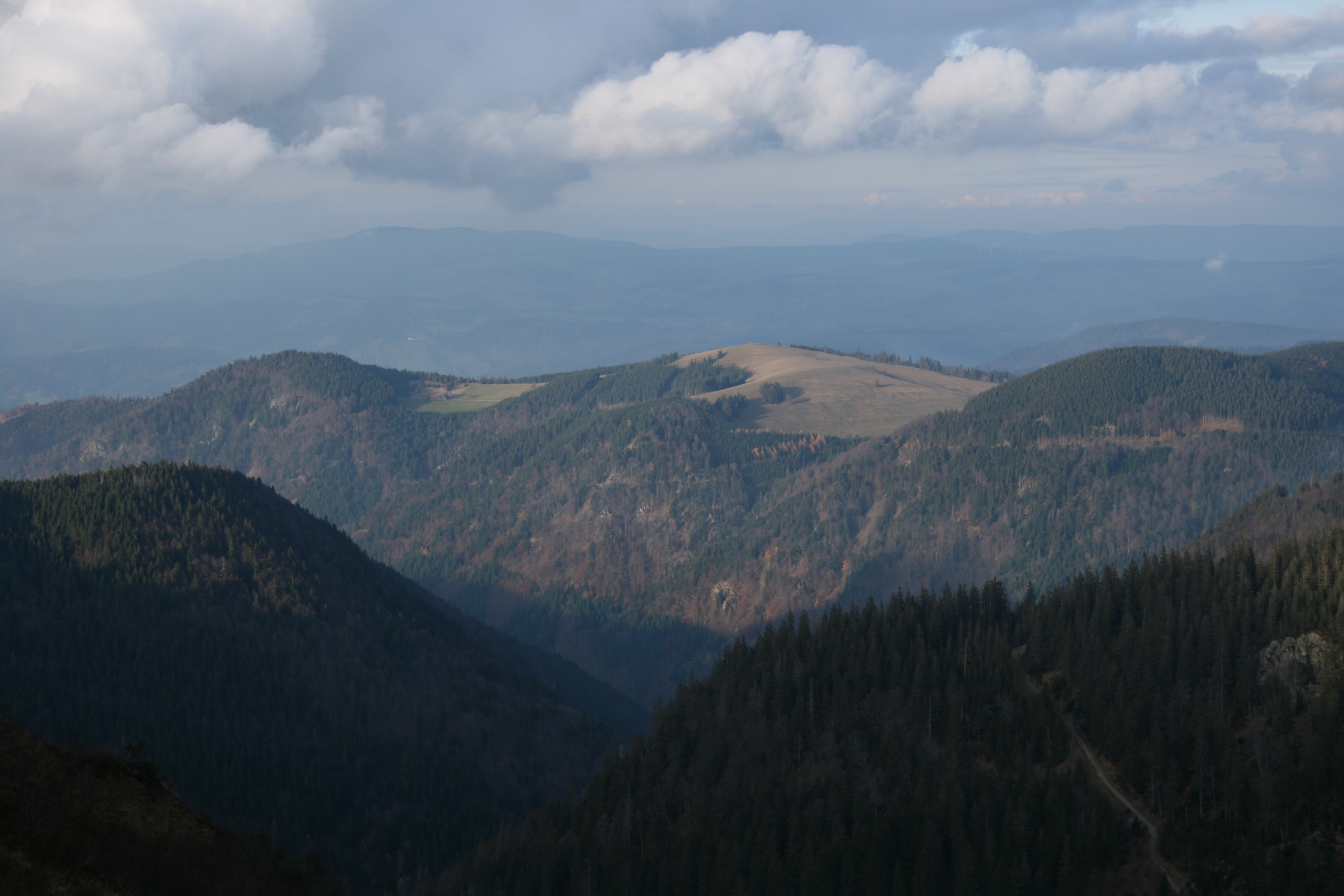 The Hinterwaldkopf, a mountain in the Schwarzwald. The picture was taken from the summit of the Feldberg.